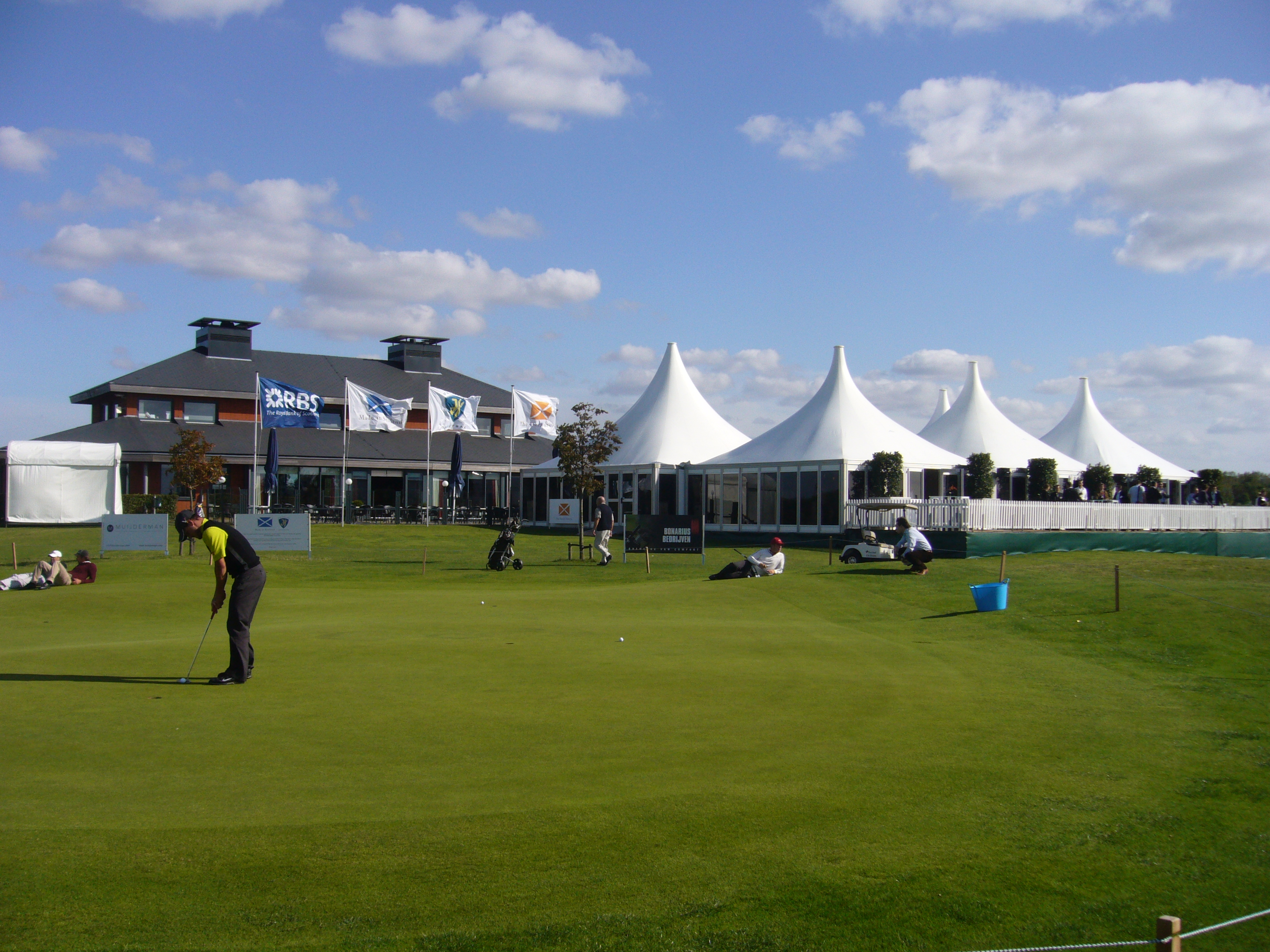 Dutch Challenge Open (golf) at Houtrak GC